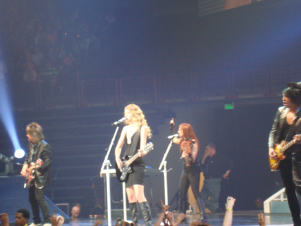 Country pop singer Taylor Swift performs on the Fearless Tour, wearing a black cocktail dress.